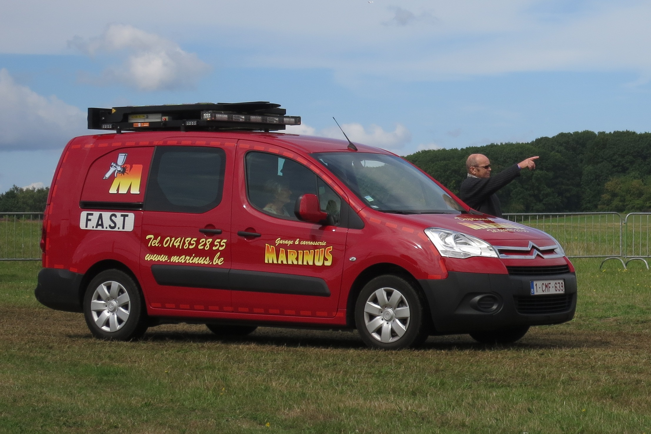 Citroën Berlingo in Belgium